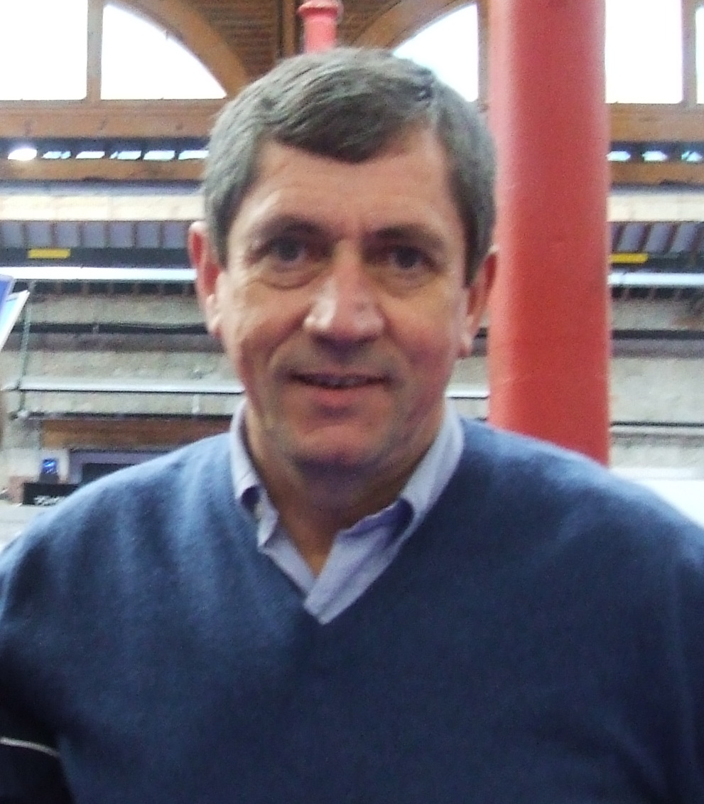 Crop Charlie Bird with Stacey Lyons in 2007.